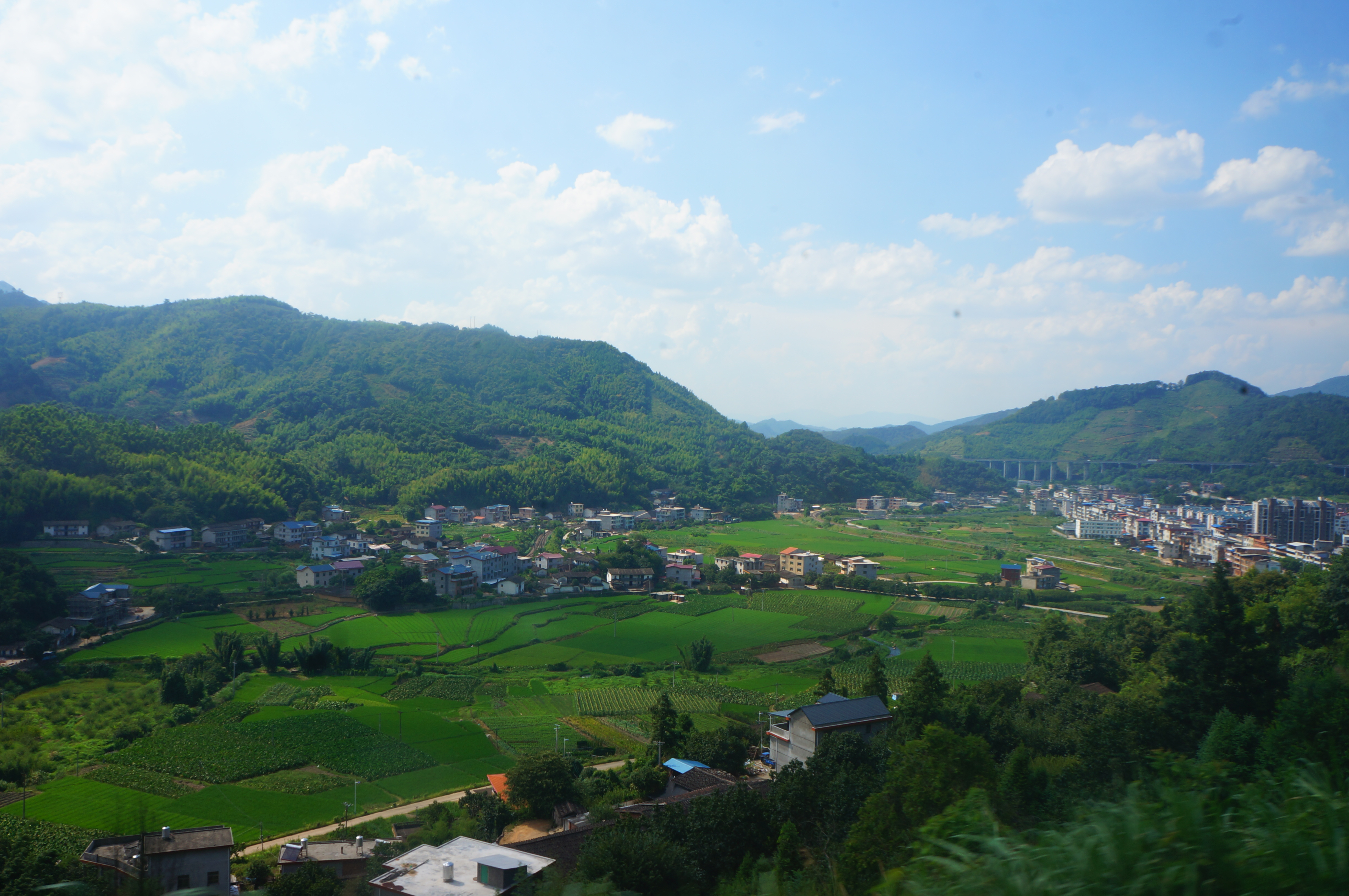 201708 Xiyang Town from Dahukeng